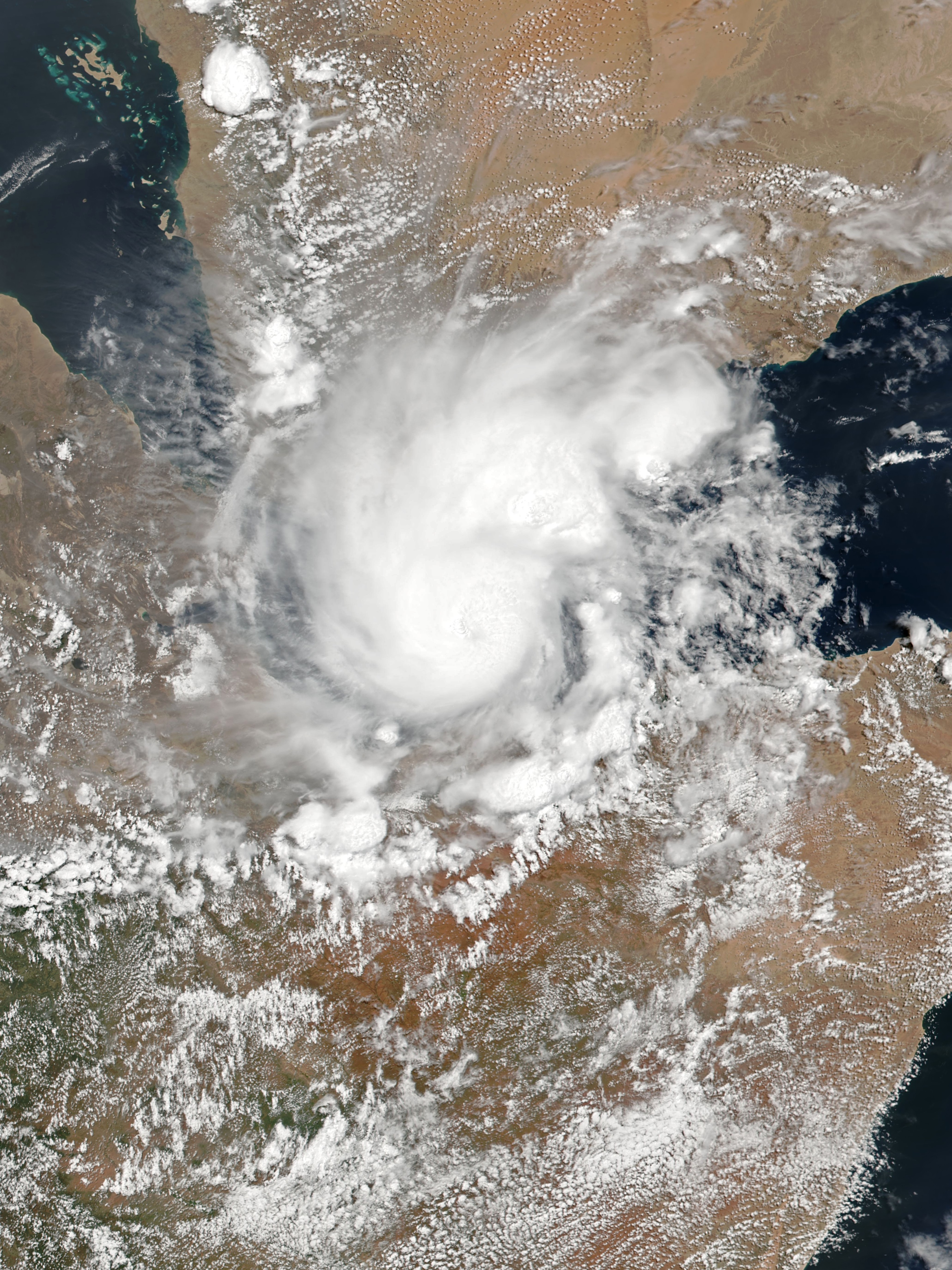 Cyclonic Storm Sagar with a cloud-filled eye over the Gulf of Aden on 18 May 2018.